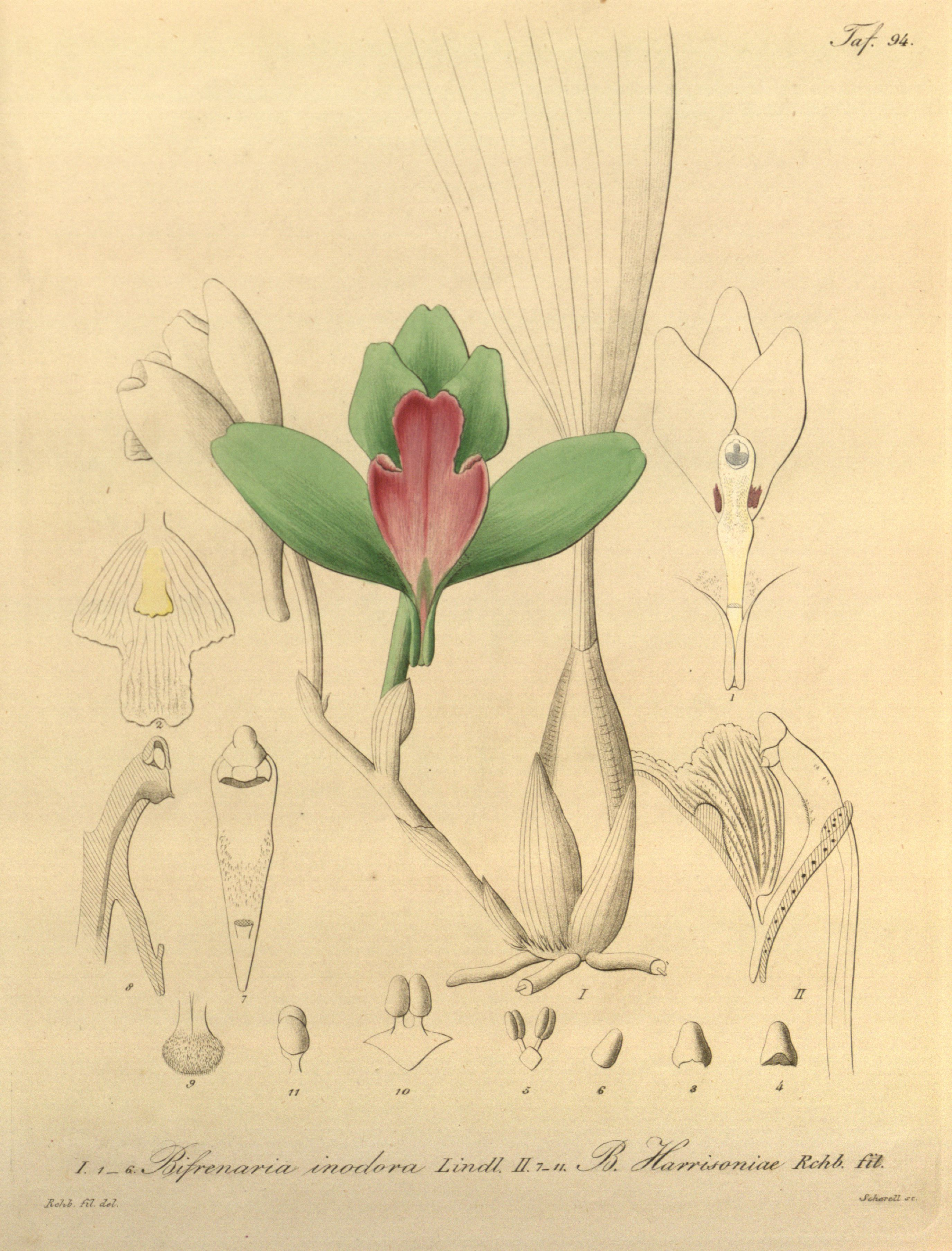 Illustration of Bifrenaria inodora and Bifrenaria harrisoniae